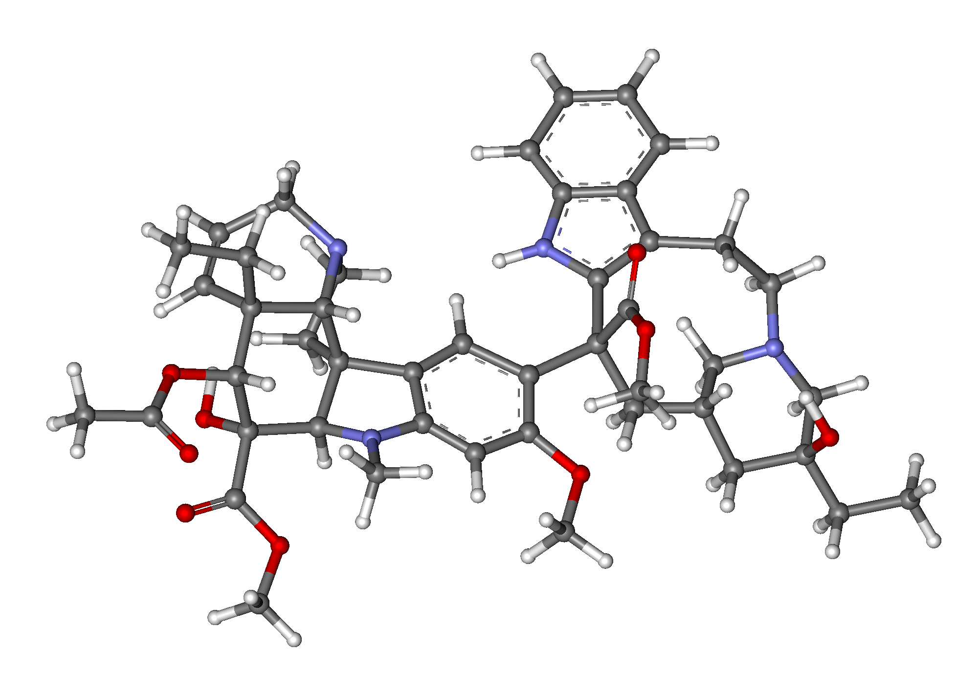 Ball-and-stick model of vinblastine molecule. The structure is taken from ChemSpider. ID 211446